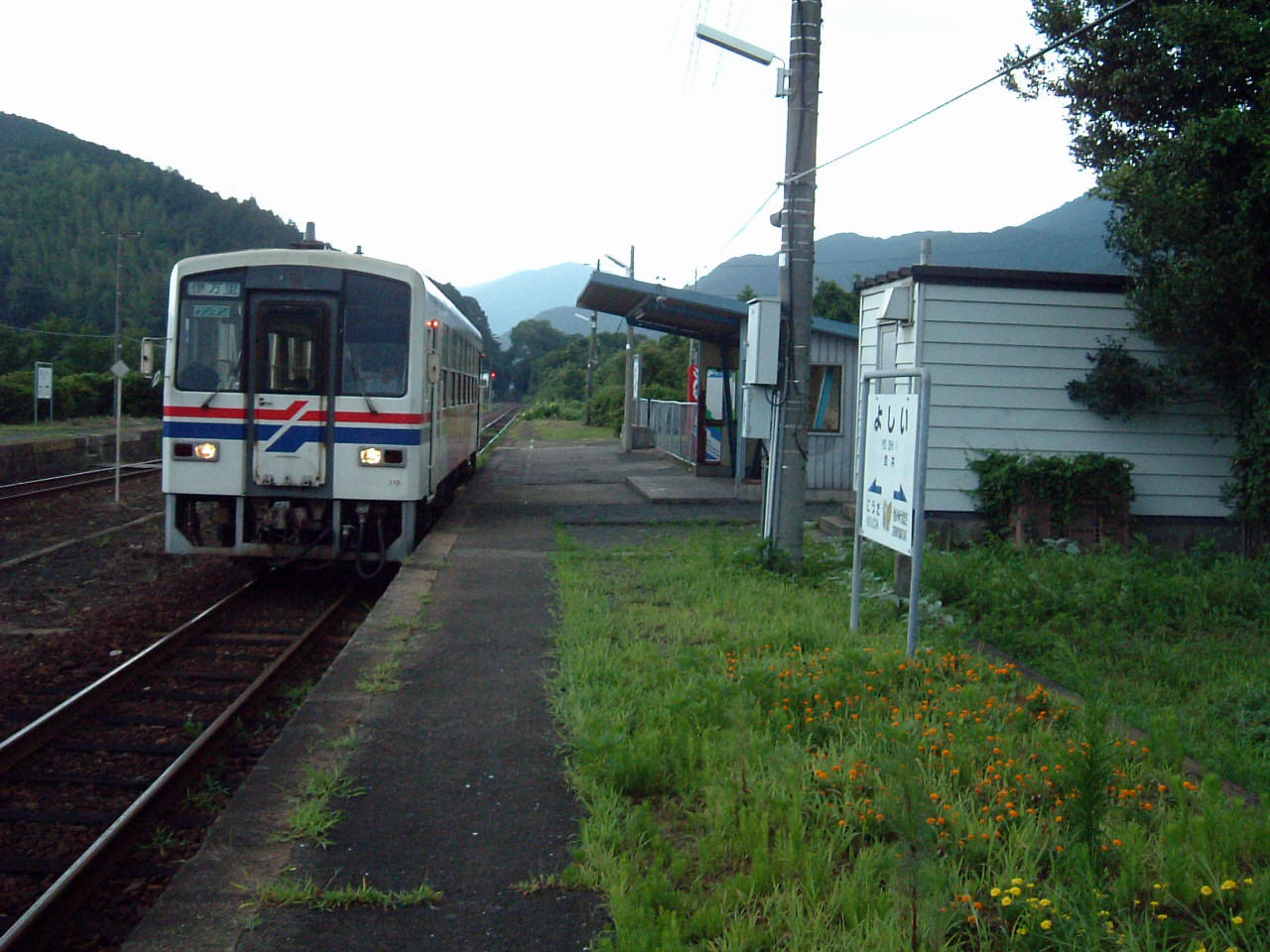 松浦鉄道吉井駅ホーム（MR Yoshii Station Platform）